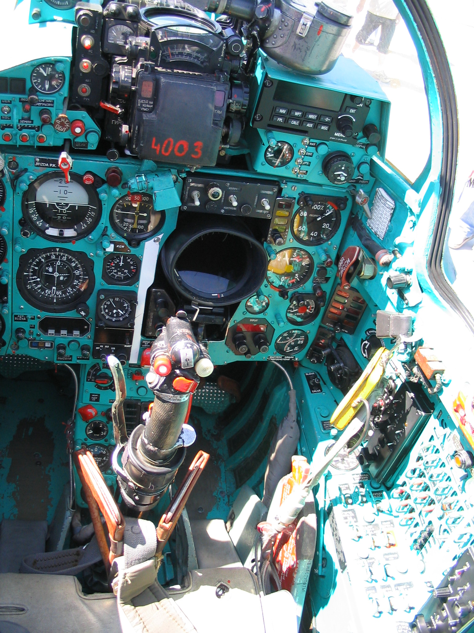 Cockpit of a MiG-21 of the Czech Air Force. Picture taken during air show.